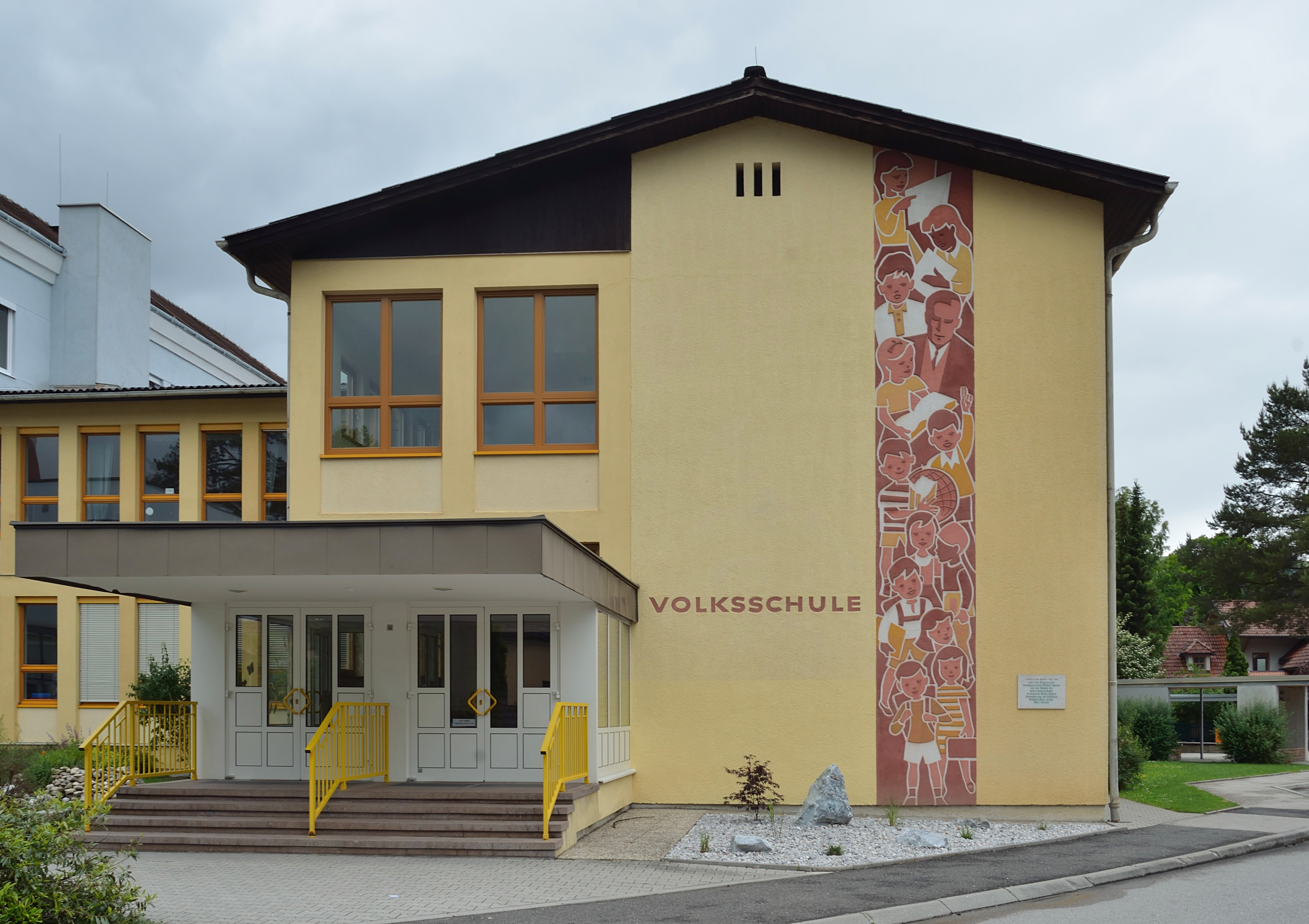 Primary school in Gresten, Lower Austria. Built in 1965-66.